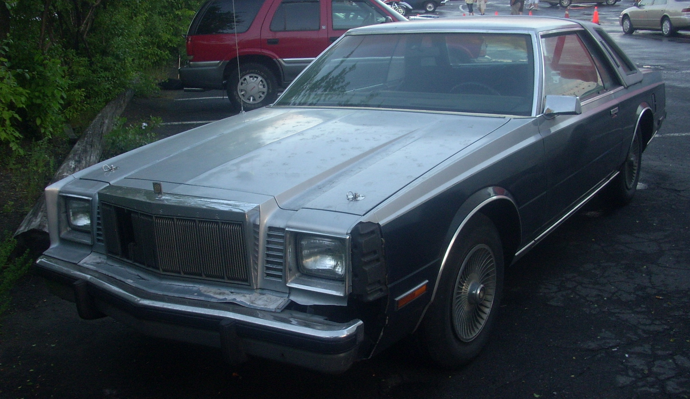 1980-1981 Chrysler Cordoba photographed in Montreal, Quebec, Canada at Gibeau Orange Julep.